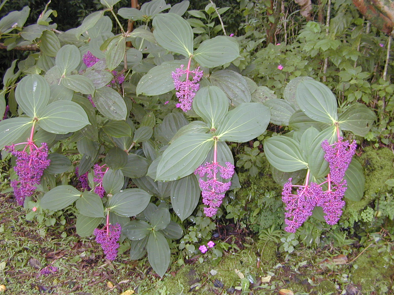 Medinilla cumingii (habit fruits). Location: Maui, Nahiku